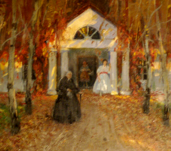 Bronisława Janowska, "Women in front of Manor House", oil on canvas, c. 1920; private collection